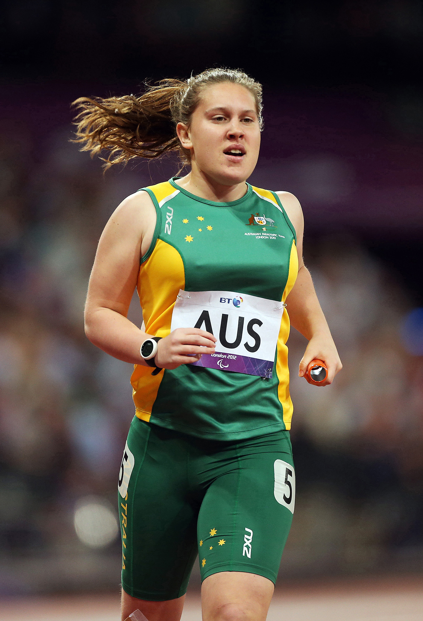 Photograph of Australian Paralympic team member Georgia Beikoff at the 2012 Summer Paralympic Games in London